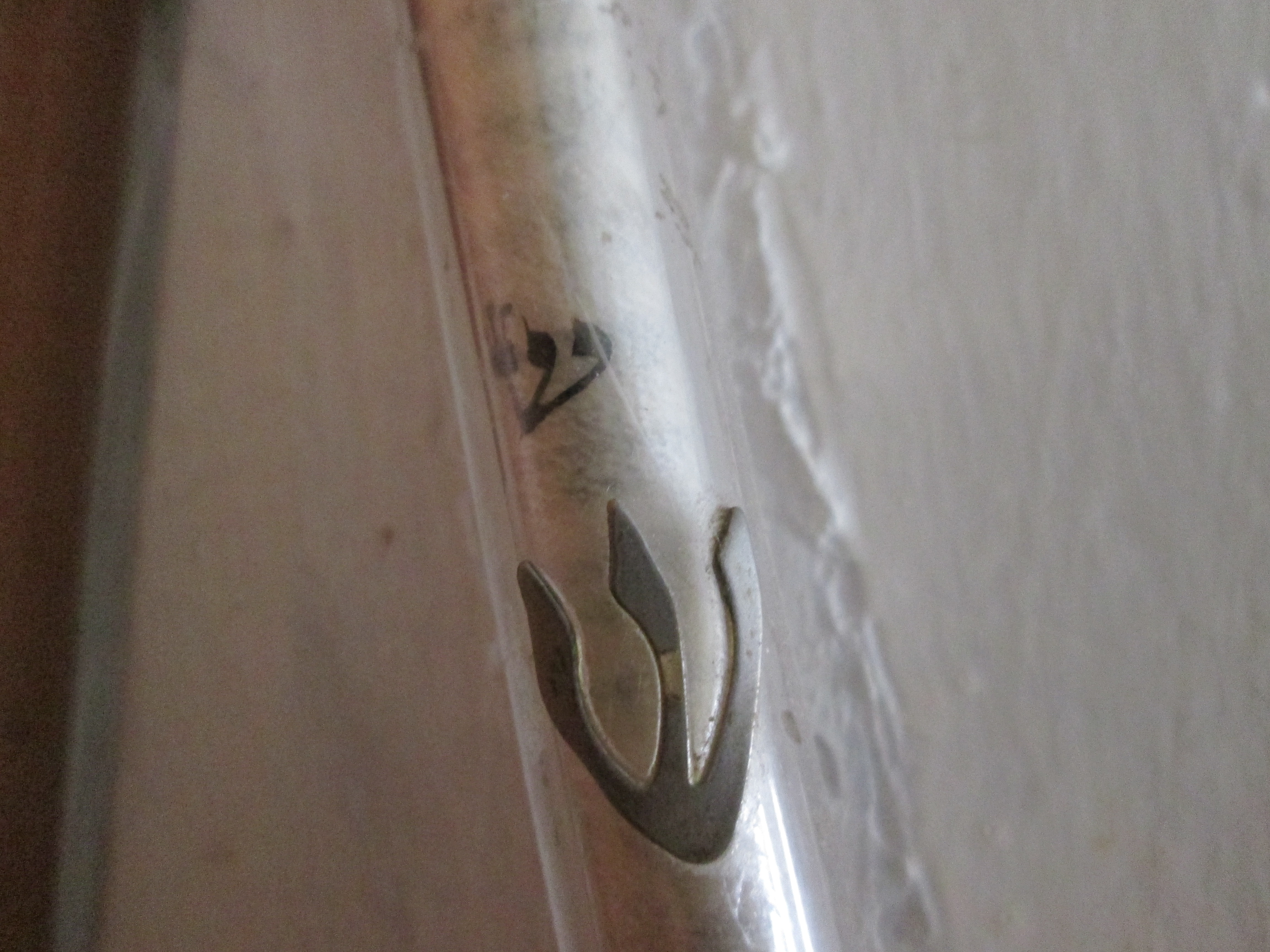 Mezuzah parchment in case with Shin in the doorpost of Jewish Scholar and Ger Tzedek Yosef Yehudah Joseph J Sherman.